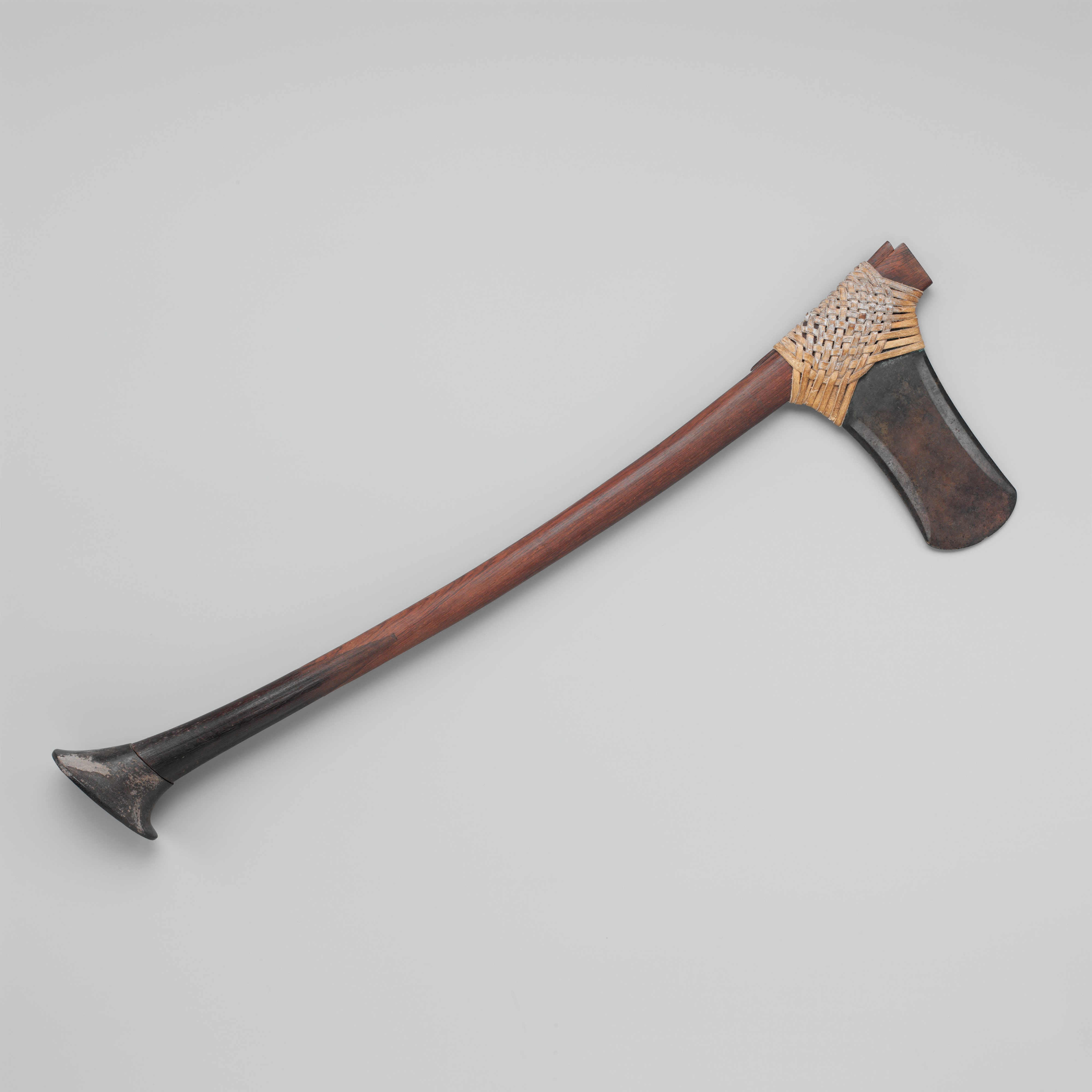 Ax